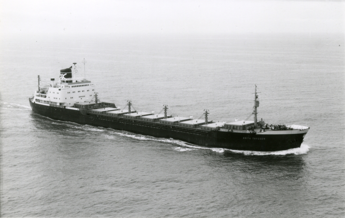 Bulk carrier ANITA THYSSEN (IMO 5018014) built at Rheinstahl Nordseewerke, Emden (yard № 329, launched: 18-12-1958, delivered: 17-03-1959), 1969 NORTRANS UNITY, 1975 AEGIS UNITY, BU Kaohsiung 02-06-1978, collection J. Robert Boman (1926 - 2002) owned by Sjöhistoriska museet.